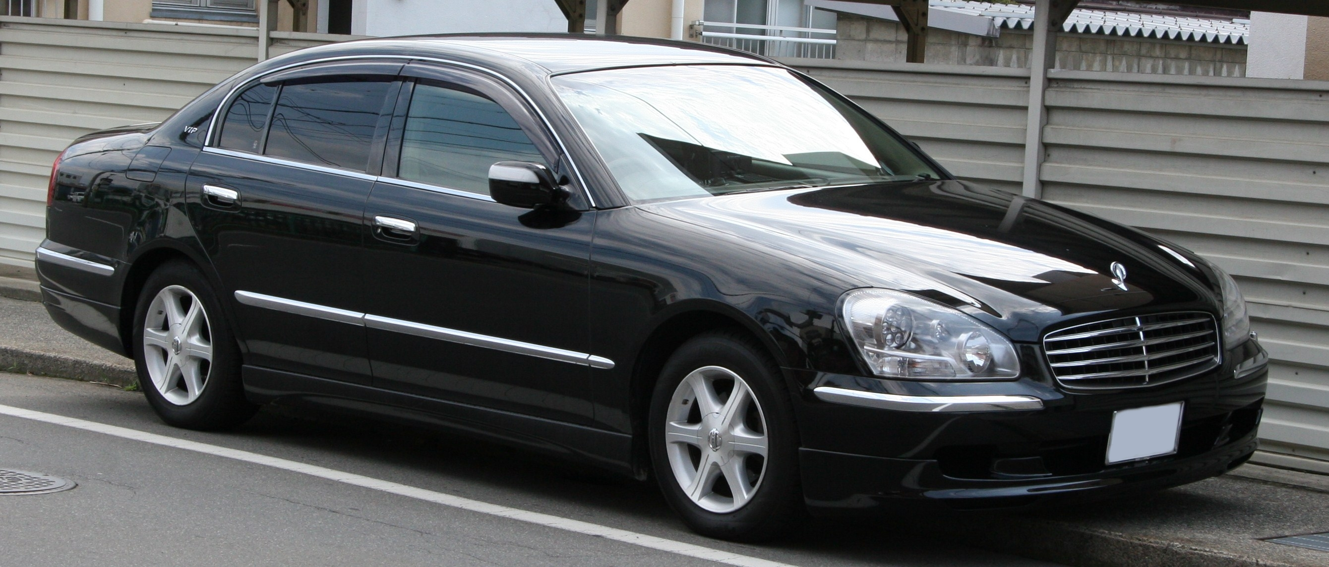 NISSAN CIMA